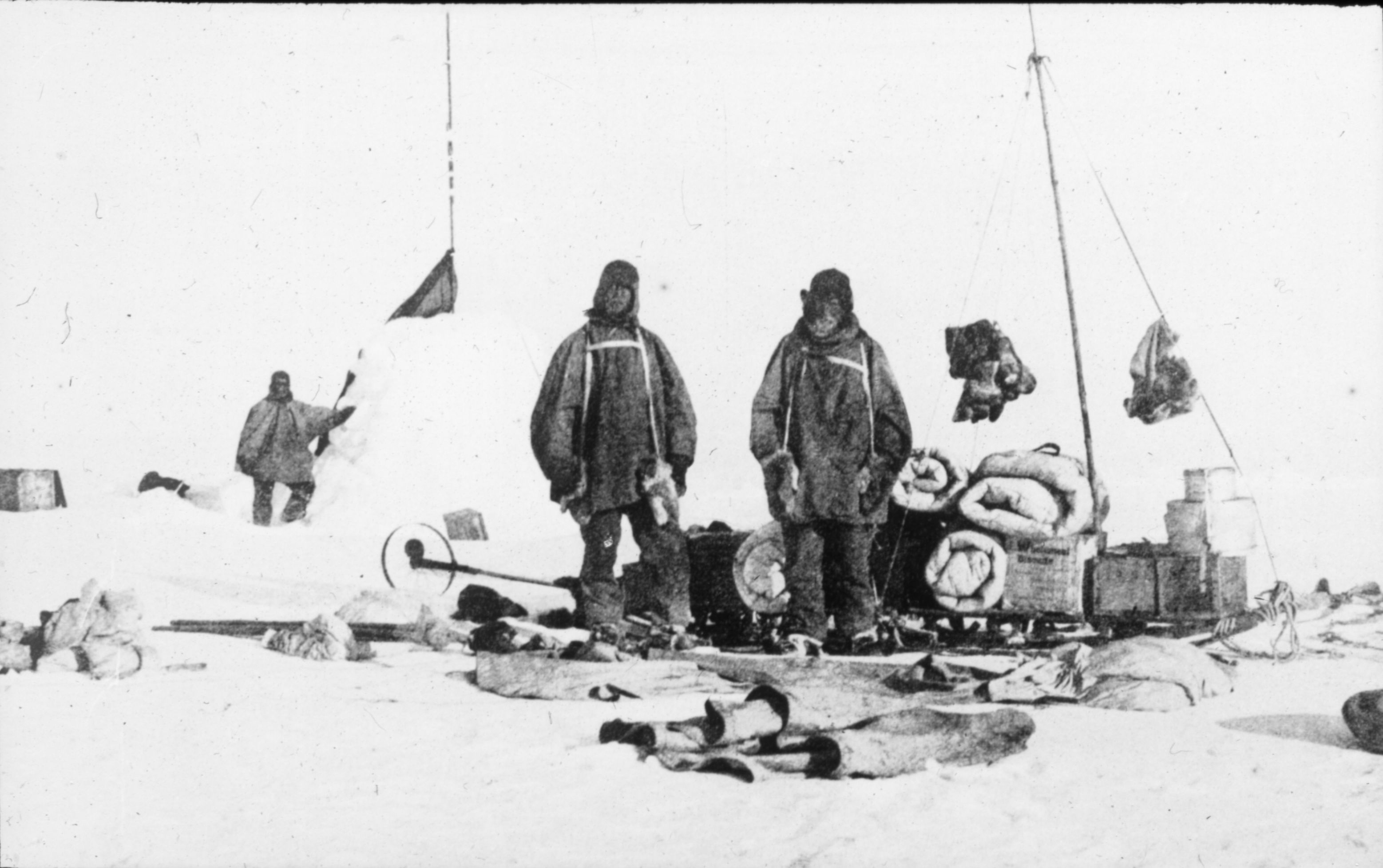 Photographs of the Nimrod Expedition (1907-09) to the Antarctic, led by Ernest Shackleton